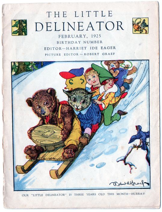 Cover of the February 1925 issue of The Little Delineator, a serial publication for children, published by The Butterick Publishing Company, 1925